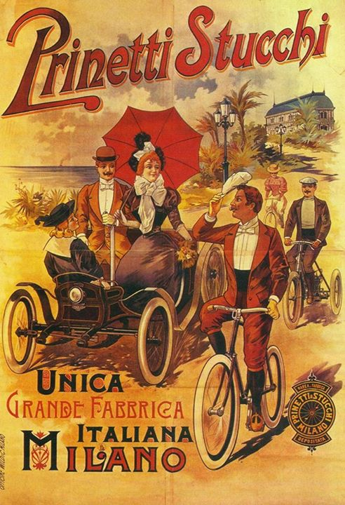 poster of Prinetti Stucchi company